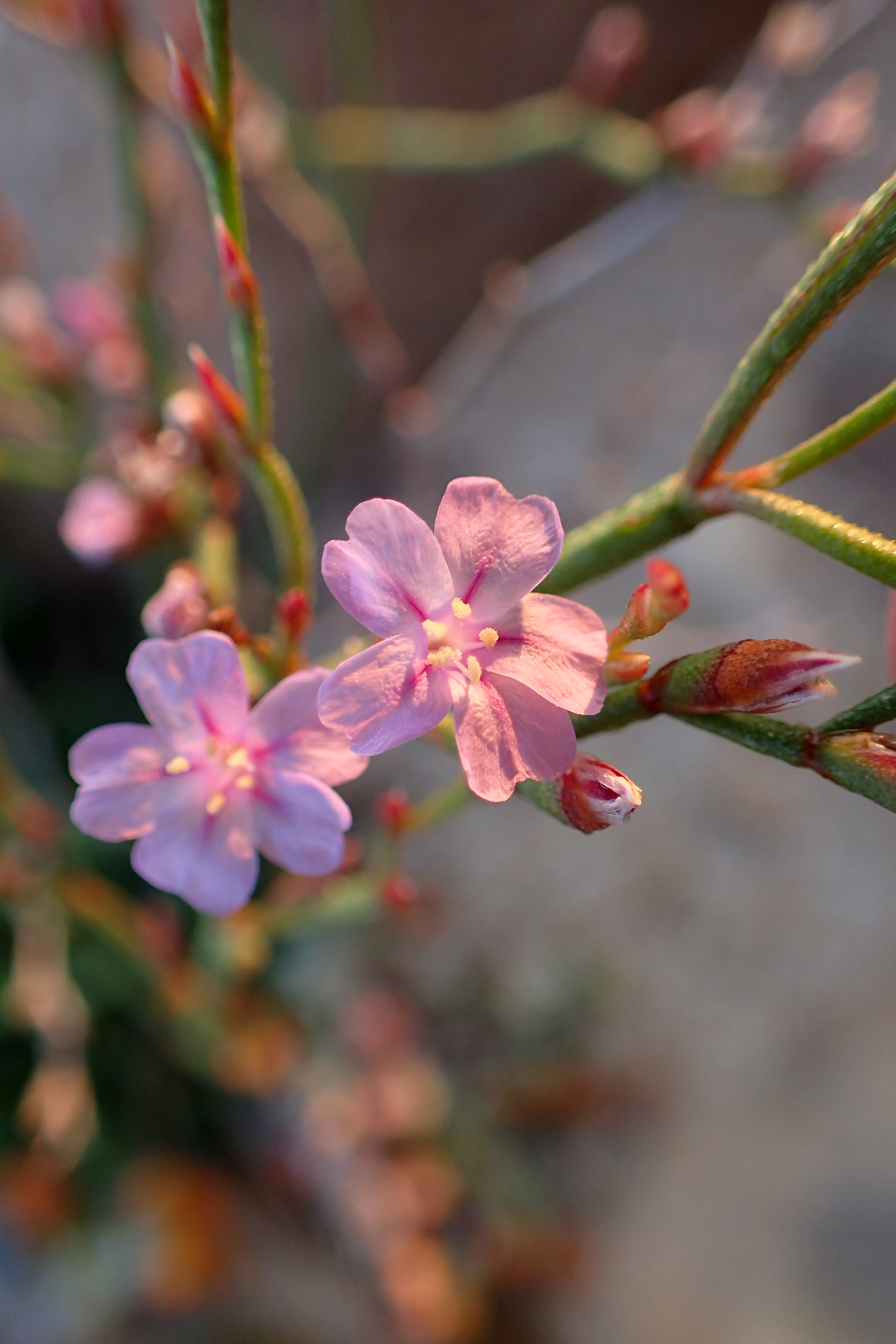 Limonium aucheri in Kavo Gkreko, Cyprus